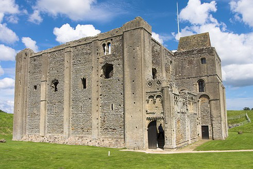 Castle Rising Castle